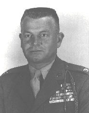 Brigadier General Donald Schmuck, USMC (1915-2004) Source: Official Marine Corps Biography for Donald Schmuck URL